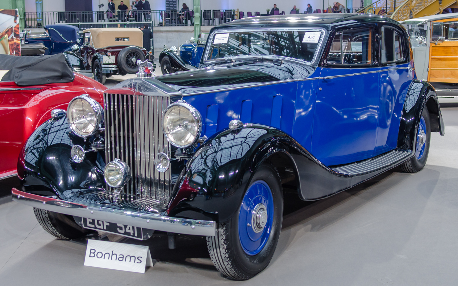 1937 Rolls-Royce Phantom III Limousine Carrosserie Arthur Mulliner Châssis n° 3BT139 Moteur n° E78X